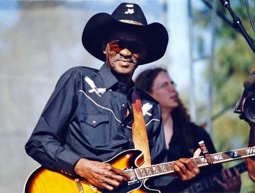 Clarence "Gatemouth" Brown at the Long Beach Blues Festival